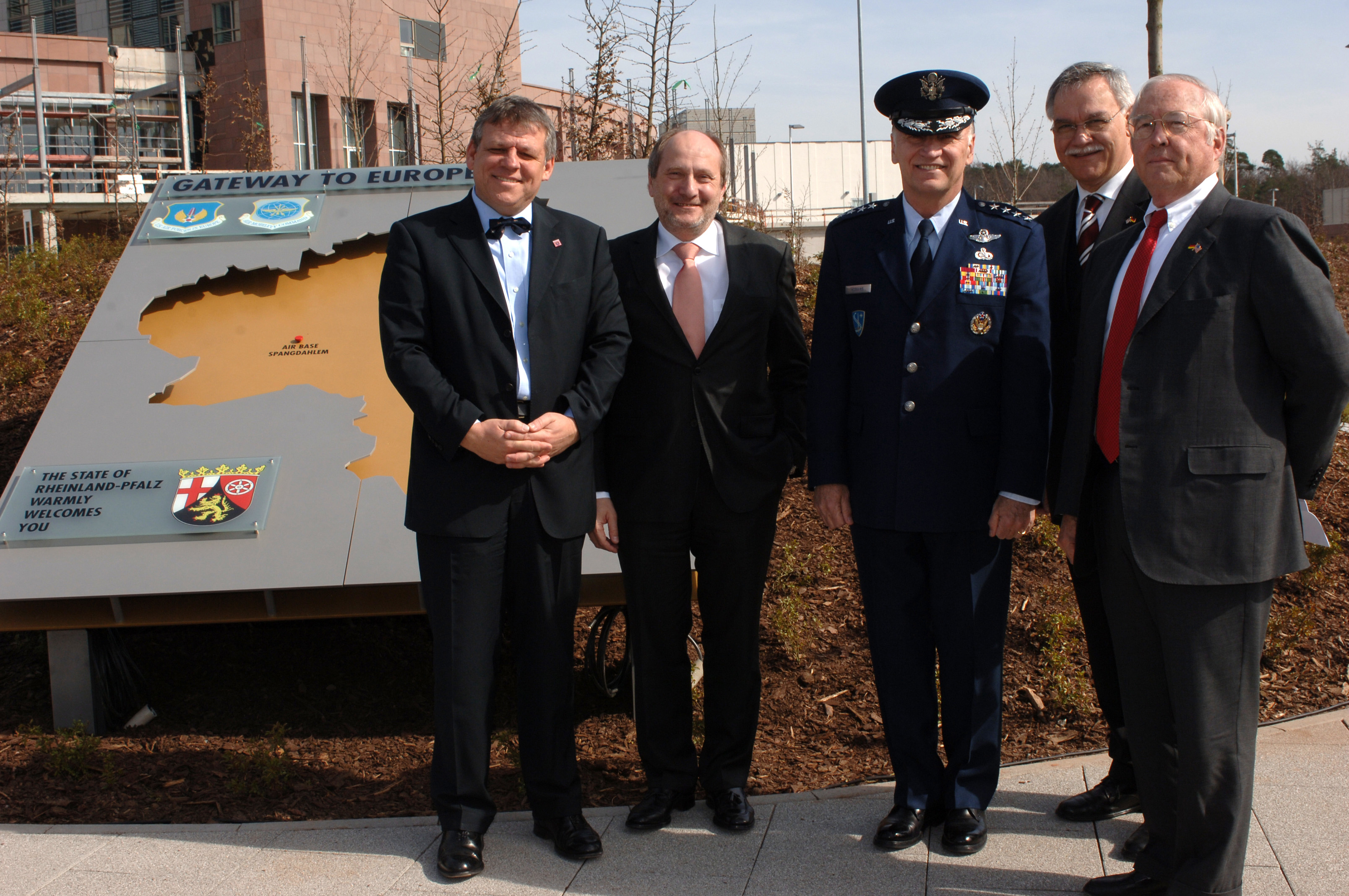 (Left to right) Mr. Volker Hoff, State of Hesse Minister for Federal and European Matters, Professor Dr. Ingolf Deubel, Minister of Finance, General Tom Hobbins, United States Air Forces in Europe commander, Mr. Karl Peter Bruch, Deputy Minister President, and Ambassador William Timken, United States Ambassador to Germany; stand by the newly dedicated monument that dubs Ramstein Air Base as the new gateway to Europe, which was previously held by Rhein-Main Air Base.